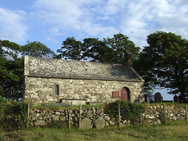 Sant Ceidio church. The small church of Sant Ceidio.